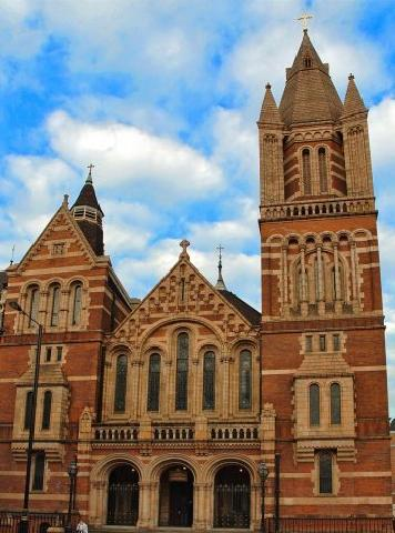 Ukrainian Catholic Cathedral of the Holy Family in Exile in London